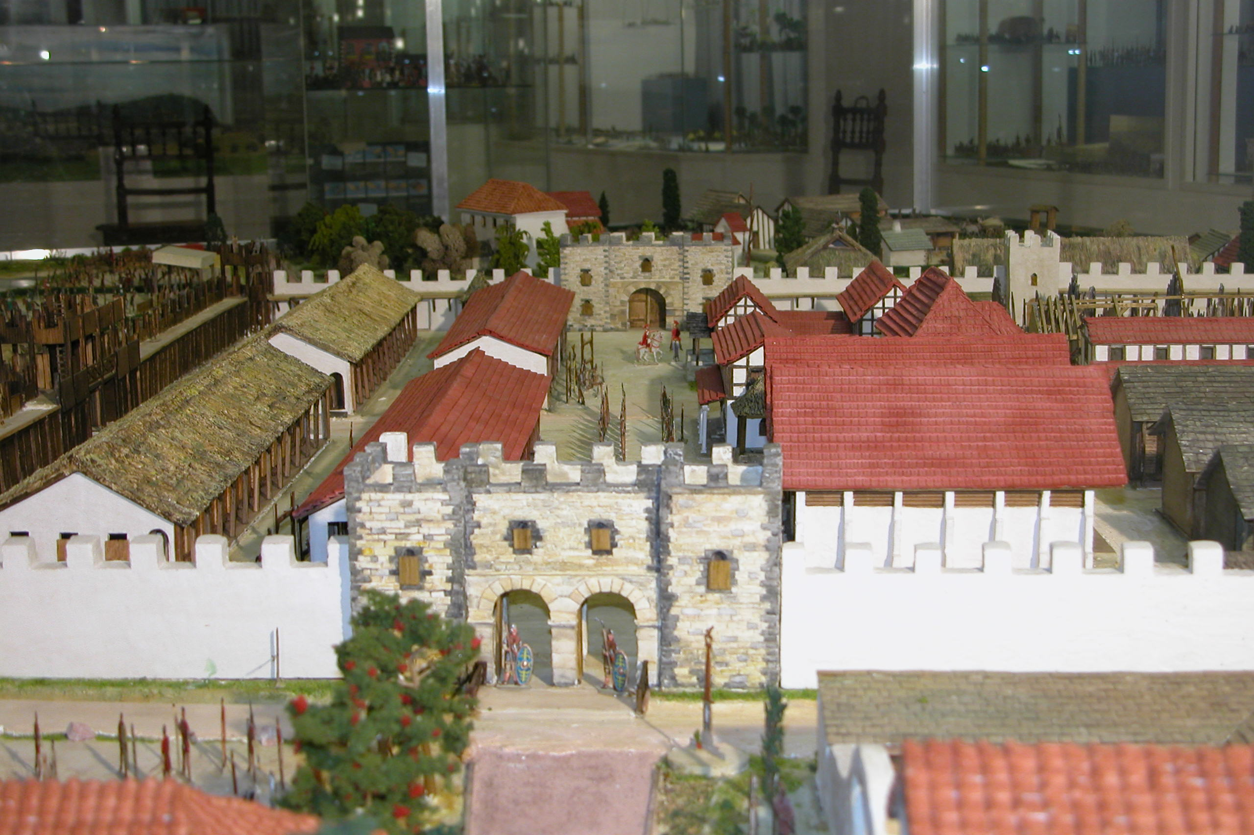 Roman castell Neuss - Diorama with tin figures